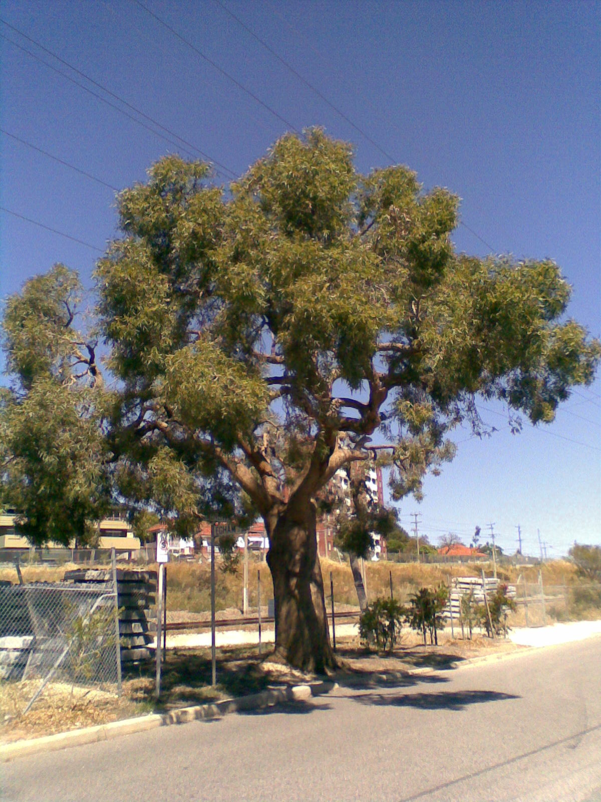 Species Eucalyptus todtiana Note the partly obscured conservation sign attached to the fence just to the left of the trunk (see Image:Eucalyptus todtiana - sign.jpg).